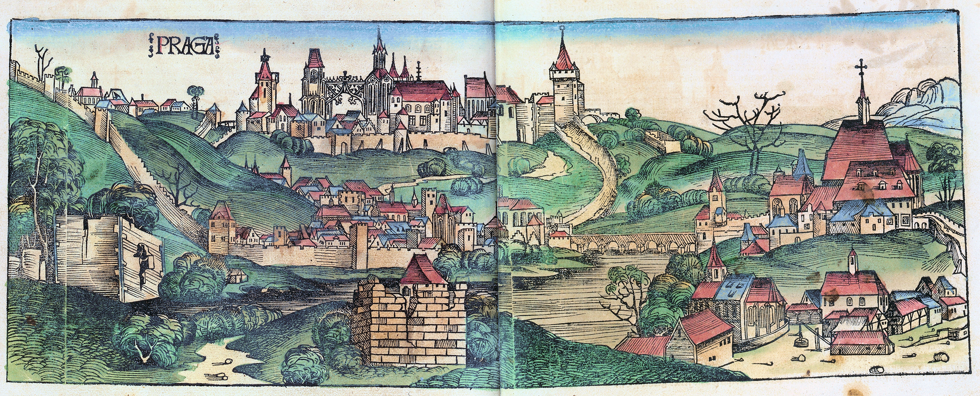 Woodcut of Prague from the Nuremberg Chronicle